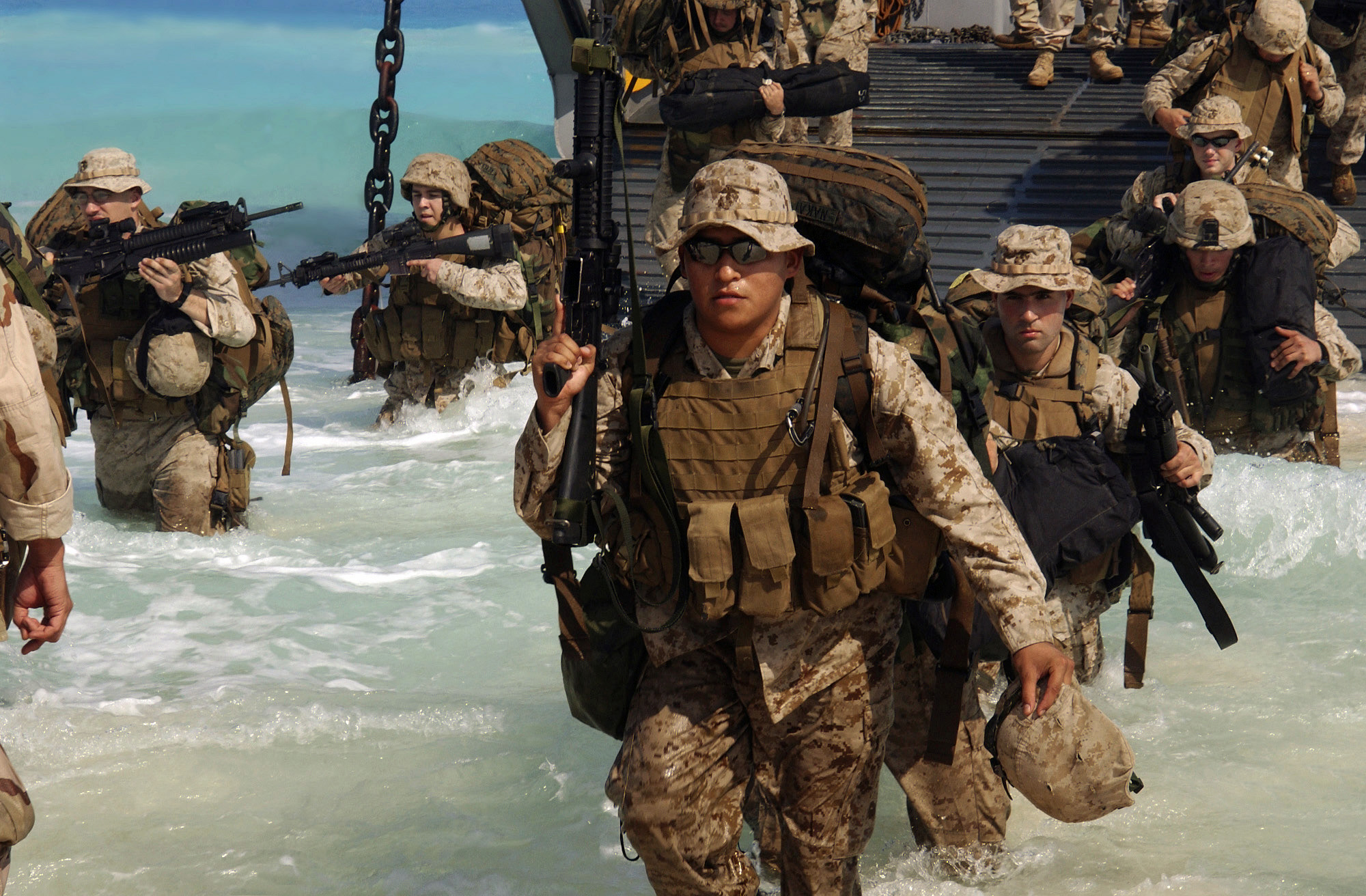 Original caption: "US Marine Corps (USMC) Marines from Expeditionary Strike Group 1 (ESG 1), 13th Marine Expeditionary Unit (MEU), disembark a US Navy (USN) landing craft utility (LCU) ship in preparation for an upcoming amphibious assault landing demonstration for Exercise BRIGHT STAR 05 in Mubarek Military City (MMC), Egypt."